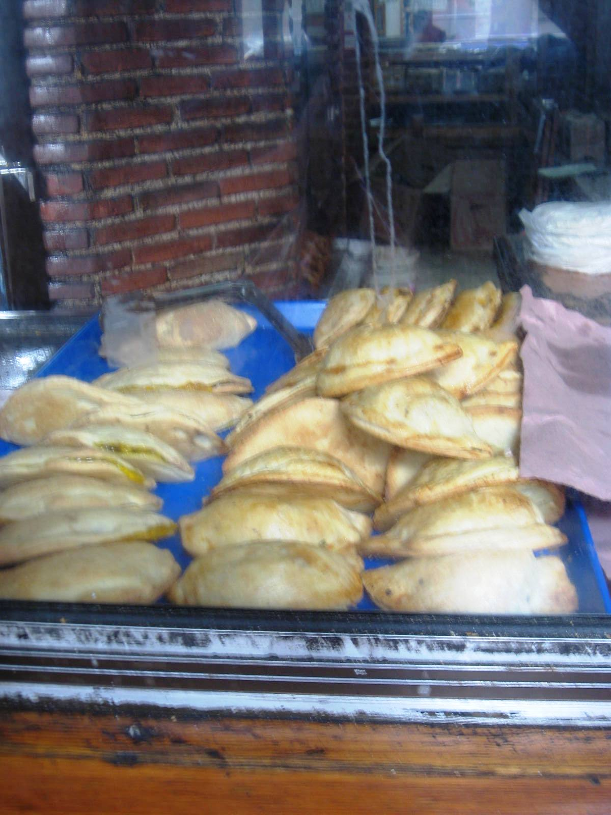 Baked pastes ready-to-eat in Pachuca Mexico